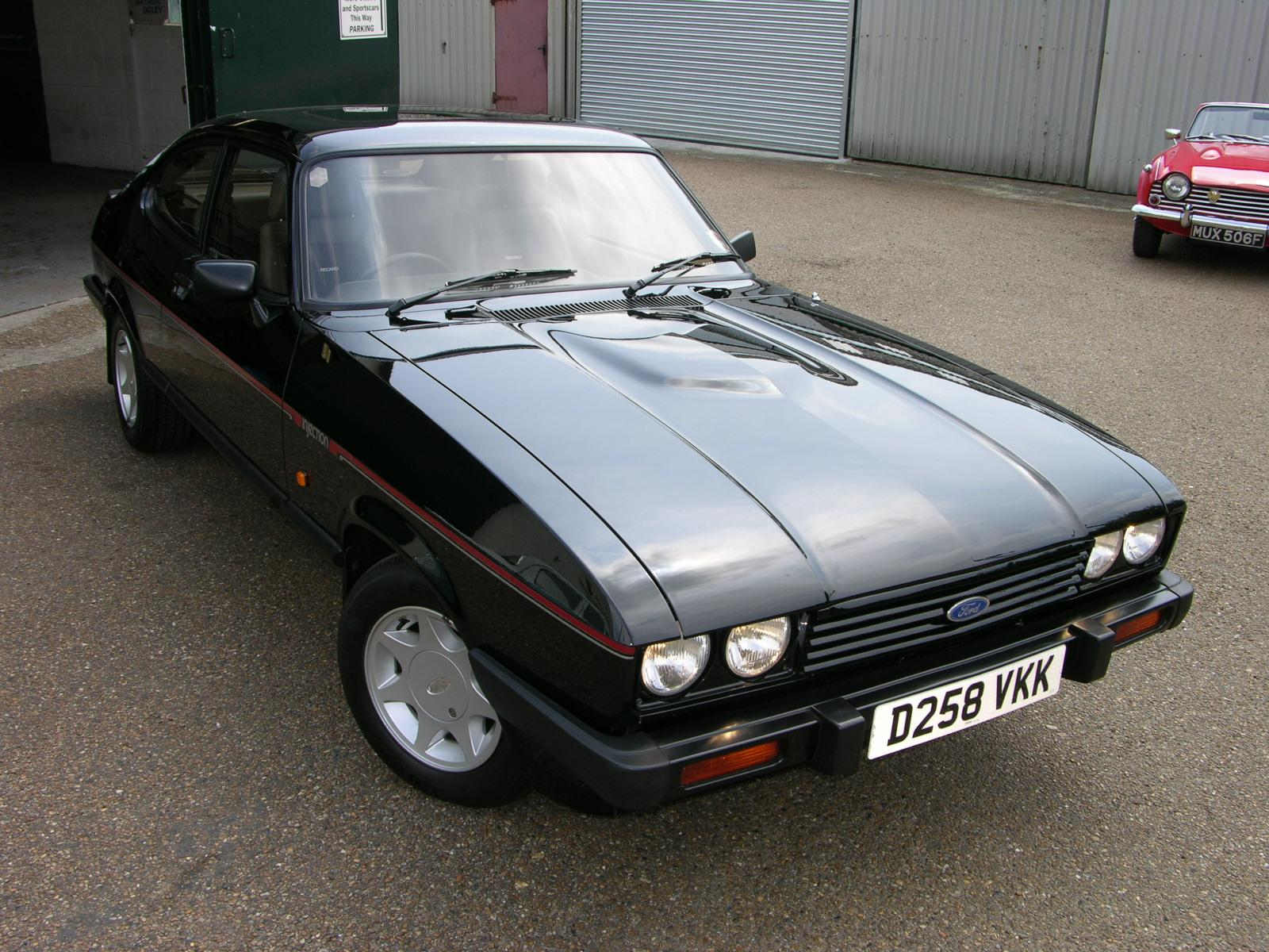 1987 Ford Capri